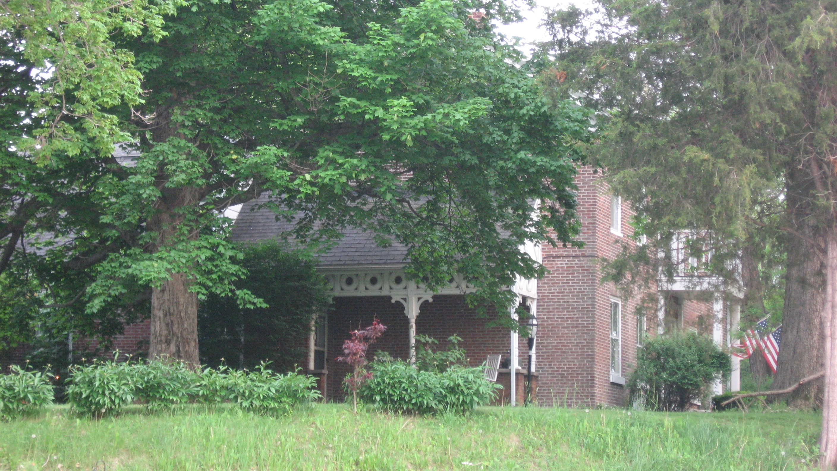 Front and northern side of the James Edington Montgomery O'Hair House, along U.S. Route 231 north of Greencastle in Putnam County, Indiana, United States. Built in 1835, it is listed on the National Register of Historic Places.